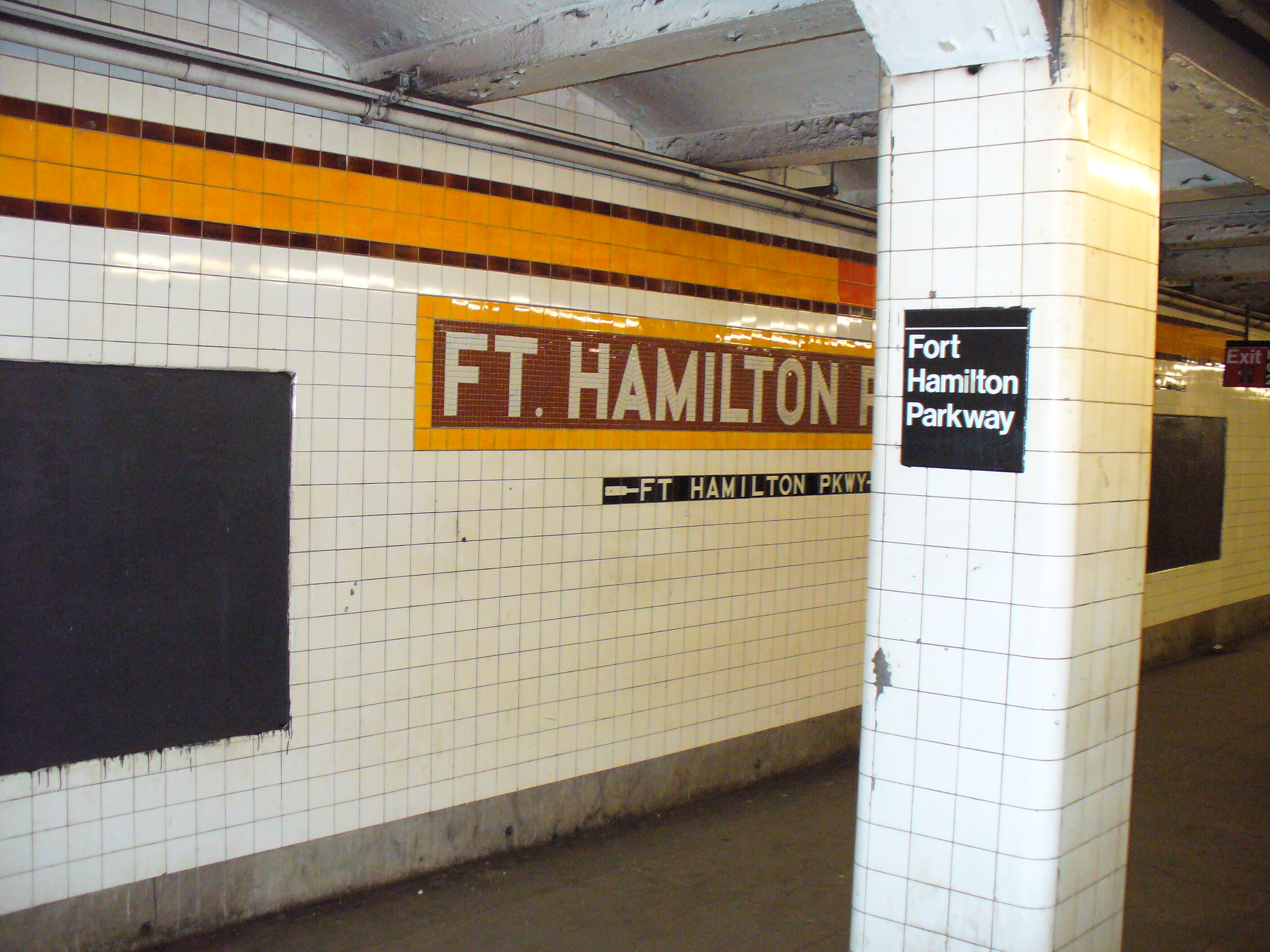 Fort Hamilton F Line NYC Subway Station by David Shankbone